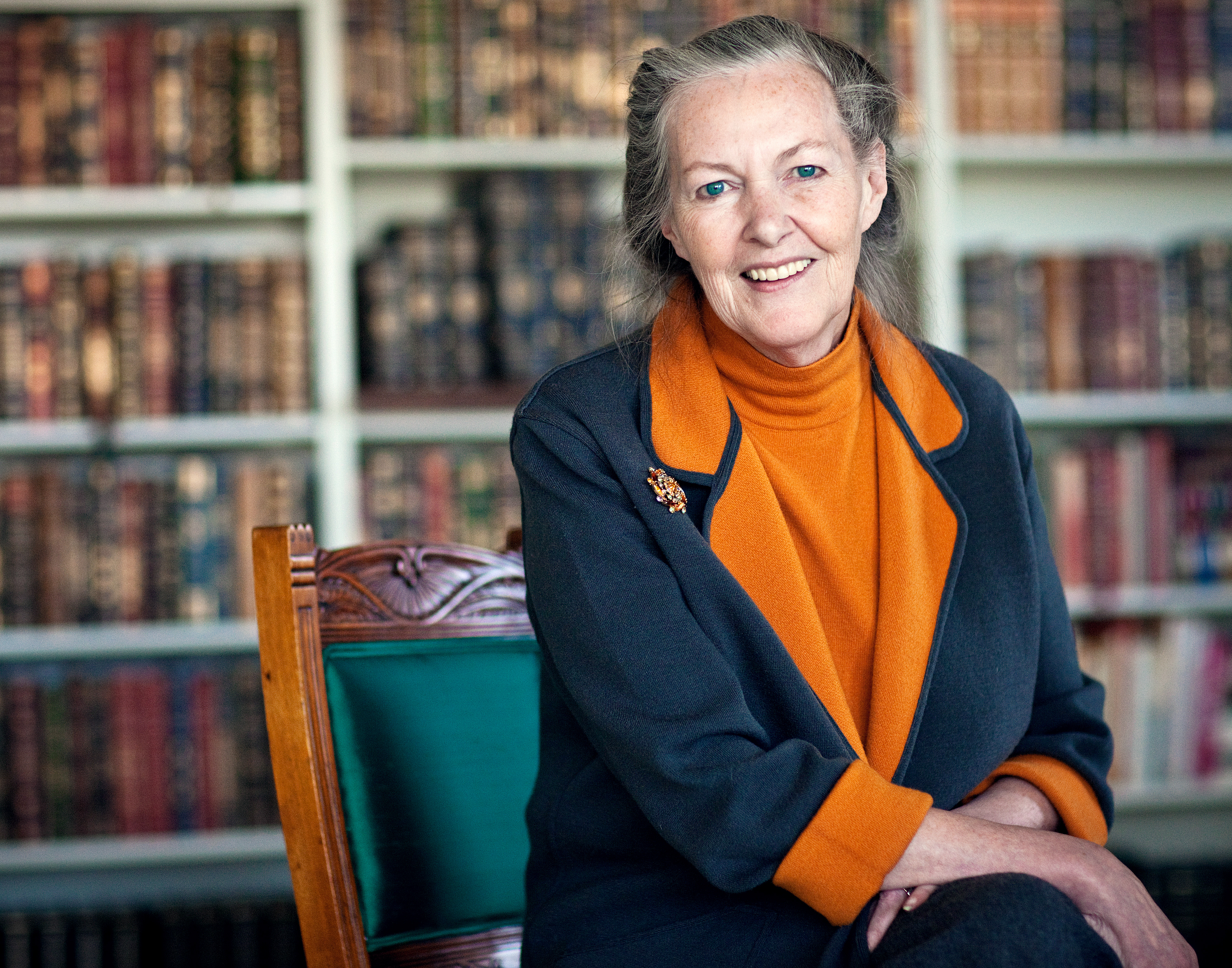 Senator Elaine McCoy, a Progressive Conservative Senator from Alberta currently sitting in the Canadian Senate.